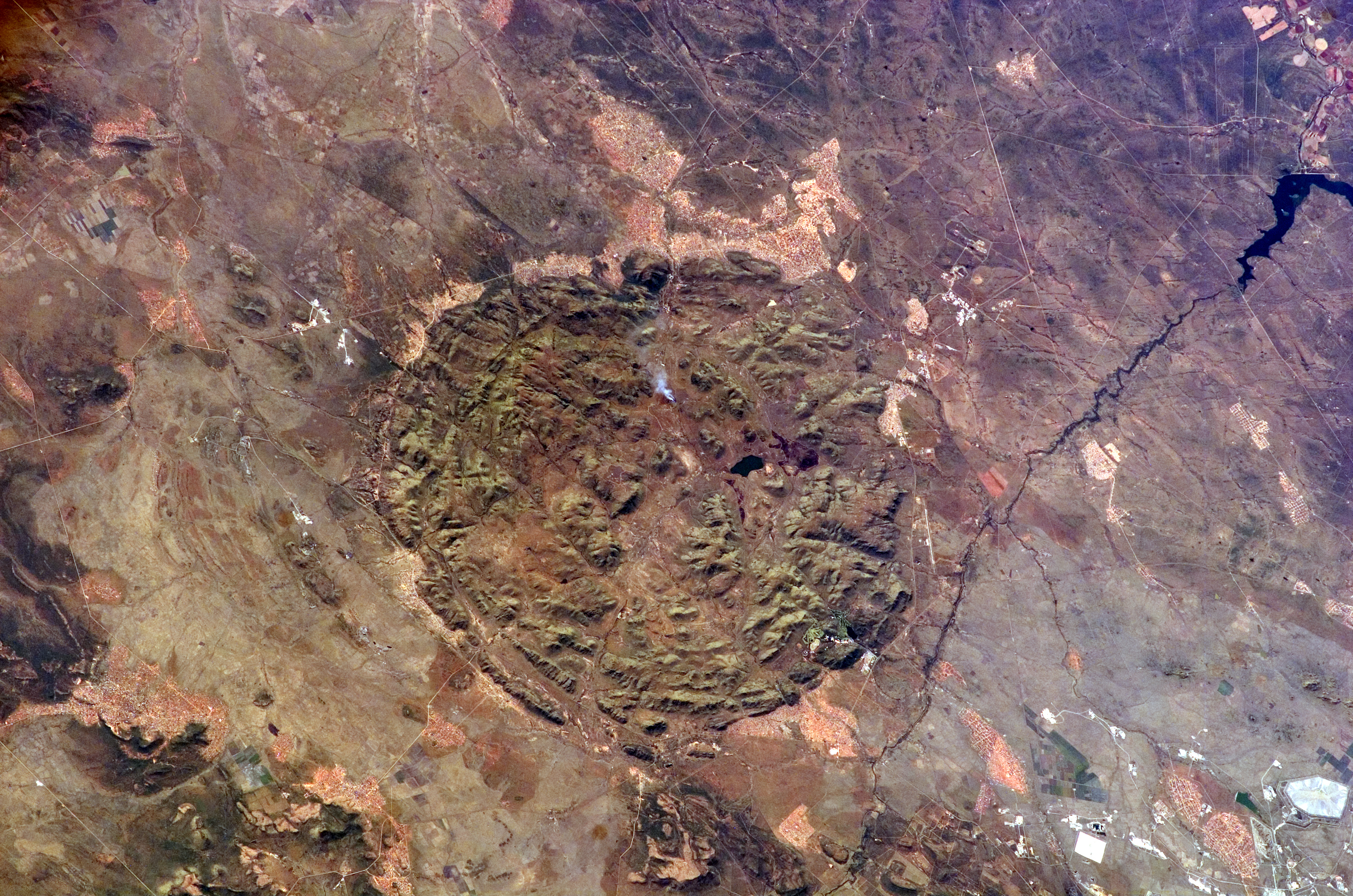 The Pilanesberg in Northwest Province, South Africa